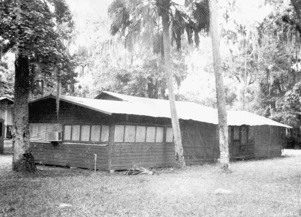 The hideaway of Florida's Pork Chop Gang